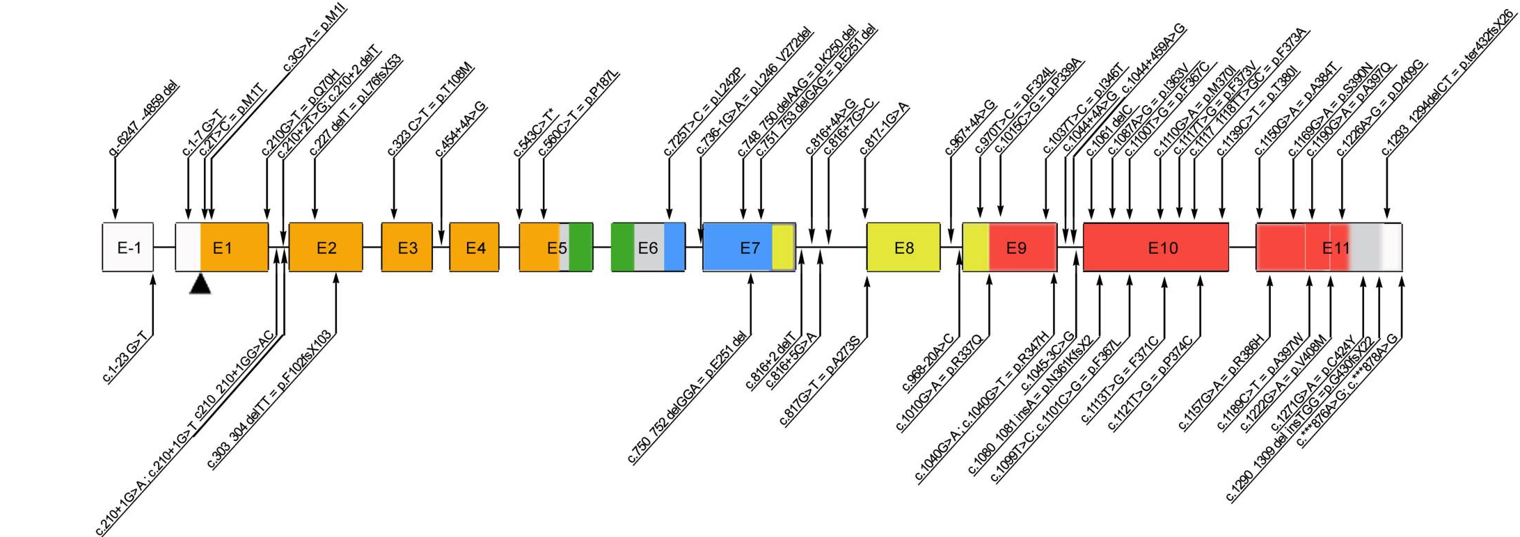 IPEX Mutations known until 2012